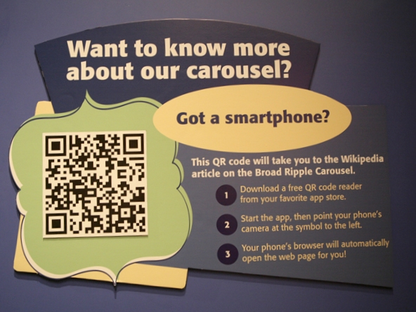 A label within the exhibit Carousel Wishes and Dreams in The Children’s Museum of Indianapolis that uses aQRpedia code to direct users to the Wikipedia article Broad Ripple Park Carousel.